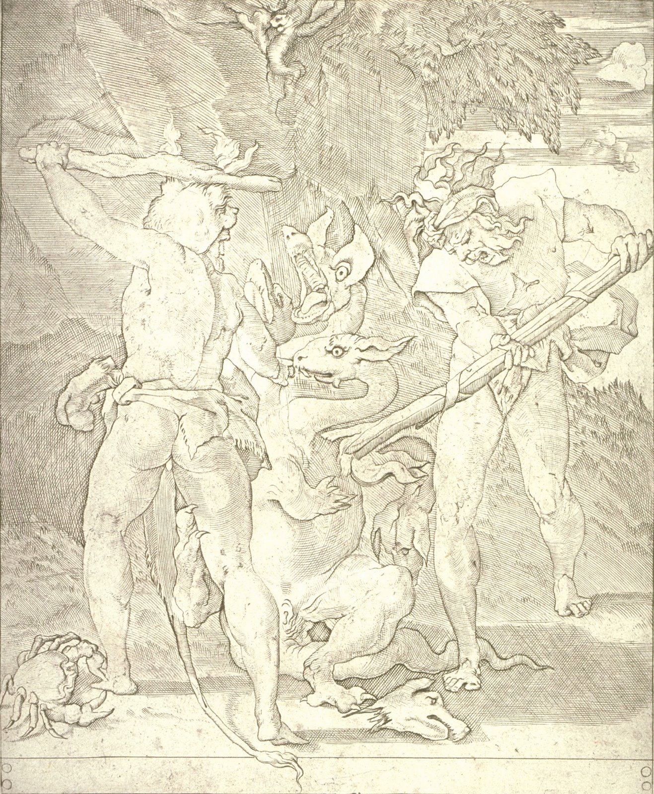 Engraving about the second labour of Heracles: slay the Lernaean Hydra